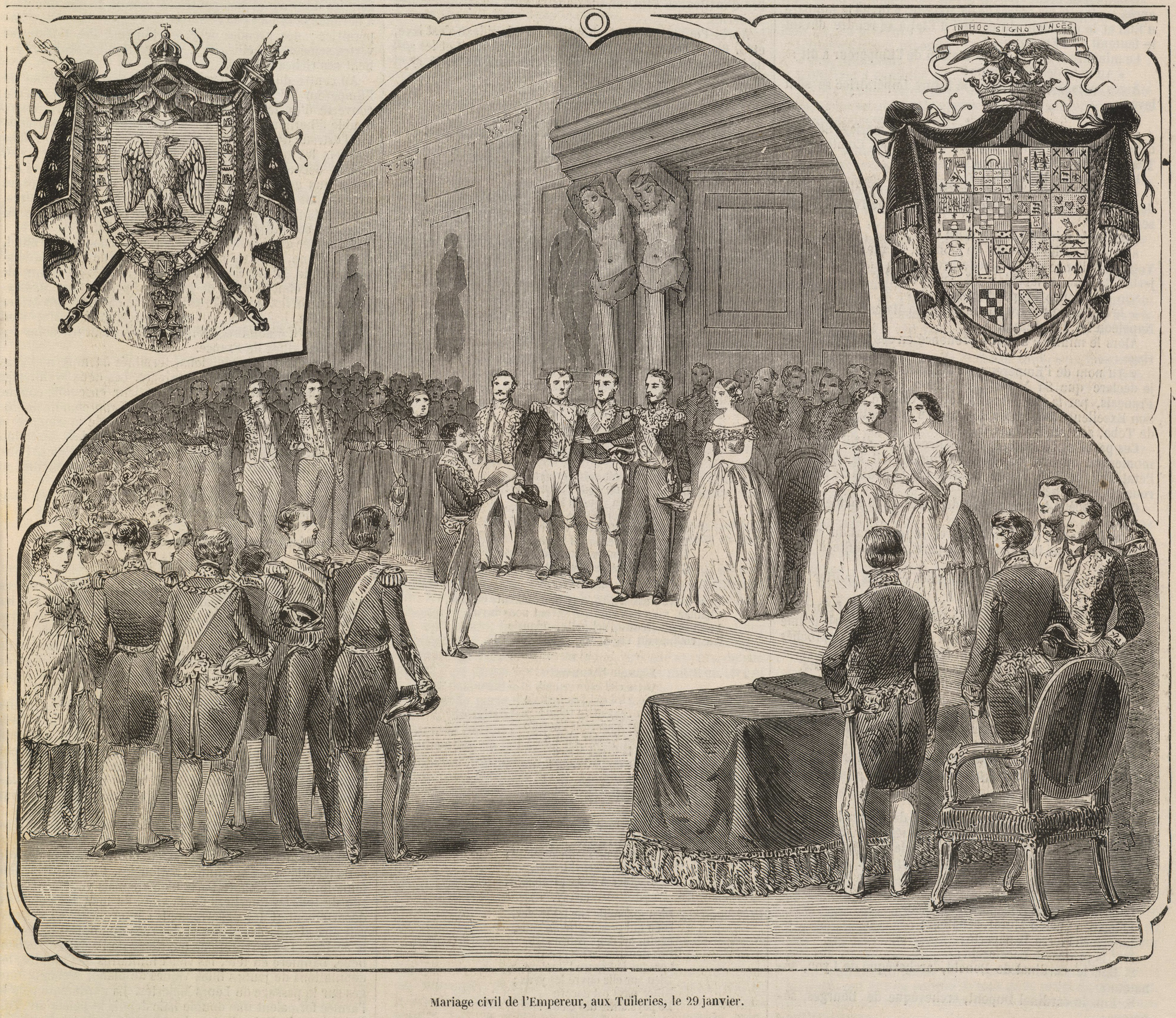 A short while after his rise to power, Louis-Napoléon married Eugénie de Montijo, comtesse de Teba. The civil and religious ceremonies were carefully orchestrated according to a very strict etiquette. This print depicts the civil ceremony, which took place in the Emperor's apartments in the Tuileries. The religious wedding was to be more spectacular, and took place in Notre Dame, where the crowd cheered the Emperor and the new Empress.